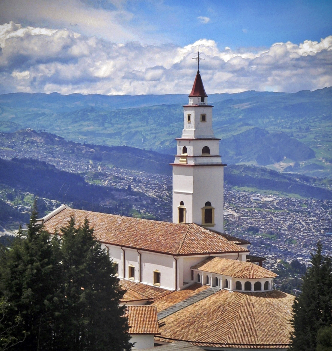 Monserrate Church in Bogota.